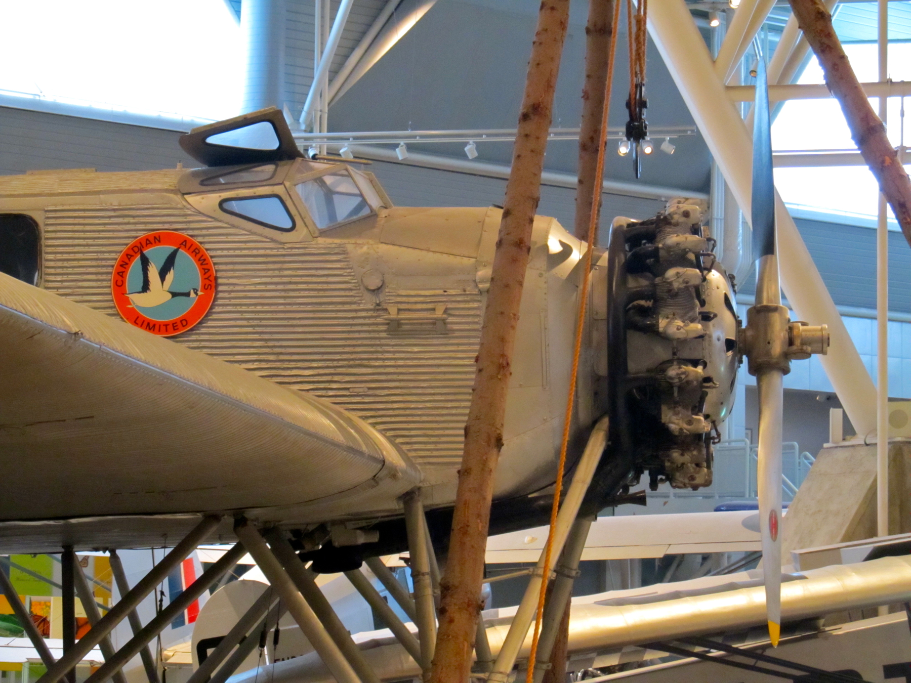 Junkers W34 at the Canadian Air and Space Museum, Ottawa.